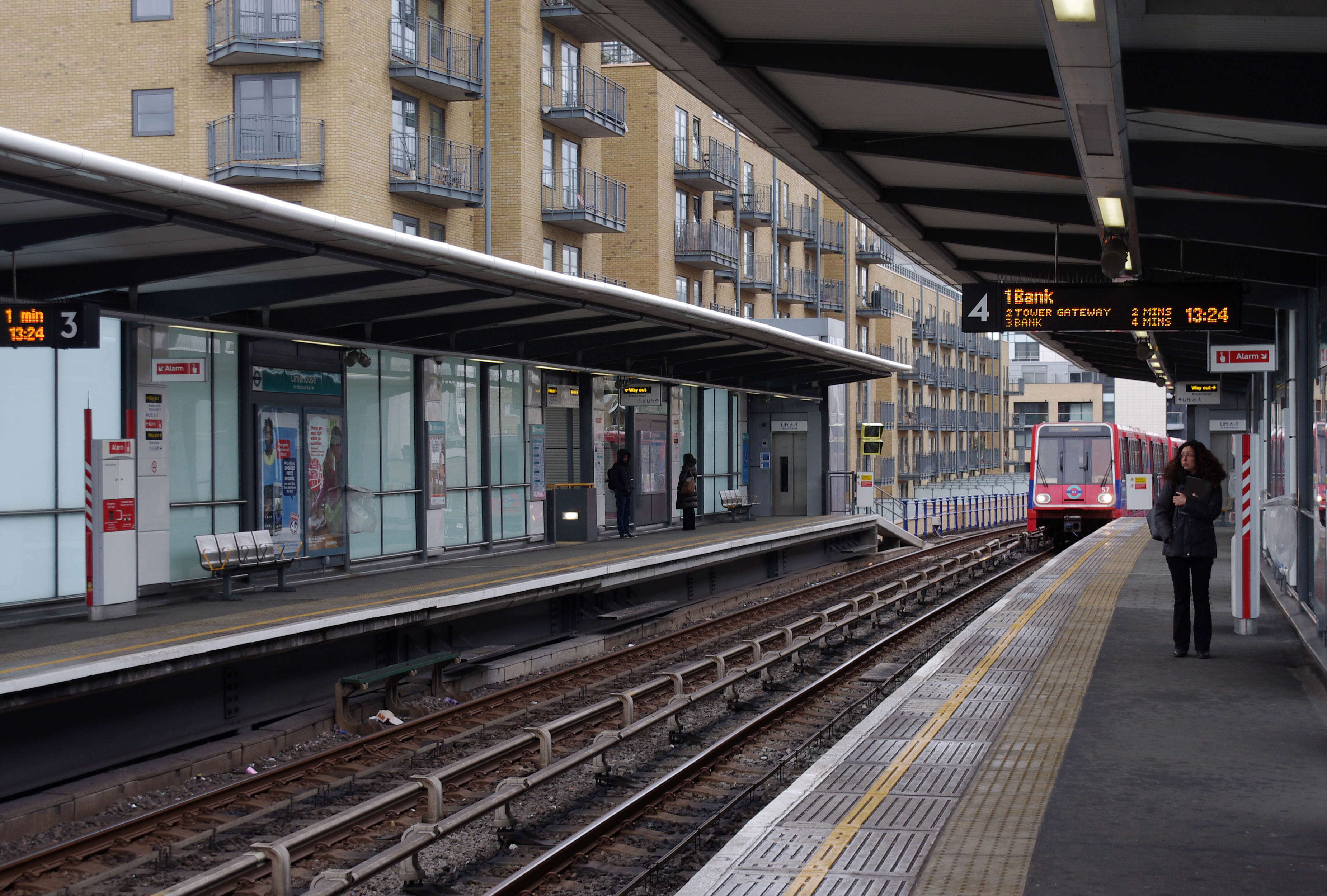 DLR type B92 EMU 57 arrives at Limehouse with a westbound service.